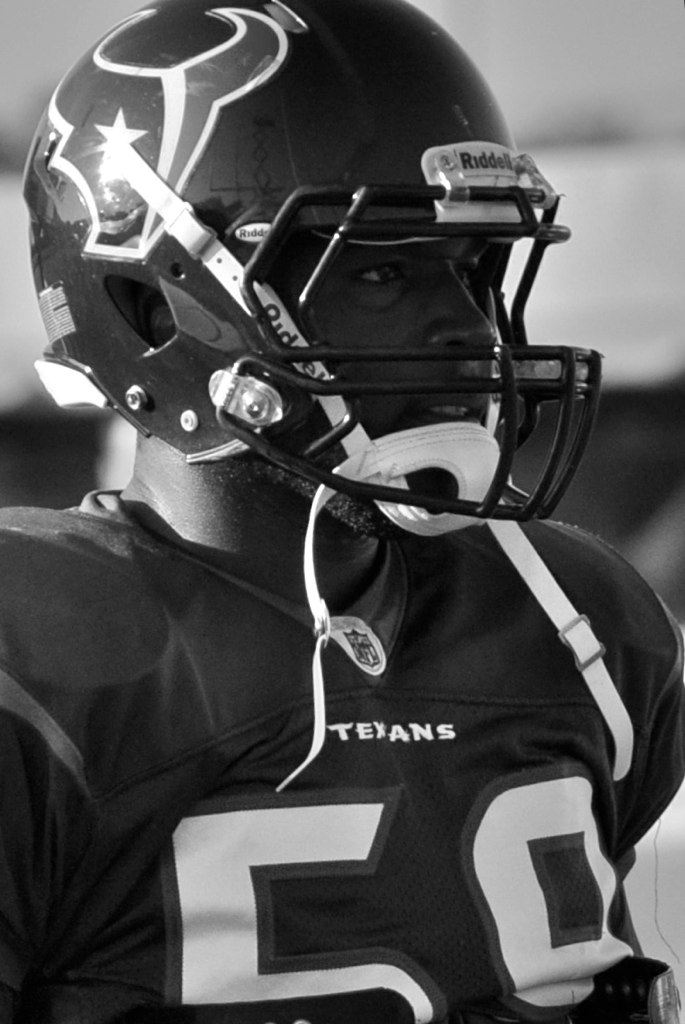 DeMeco Ryan of the Houston Texans, during training camp, 2010.